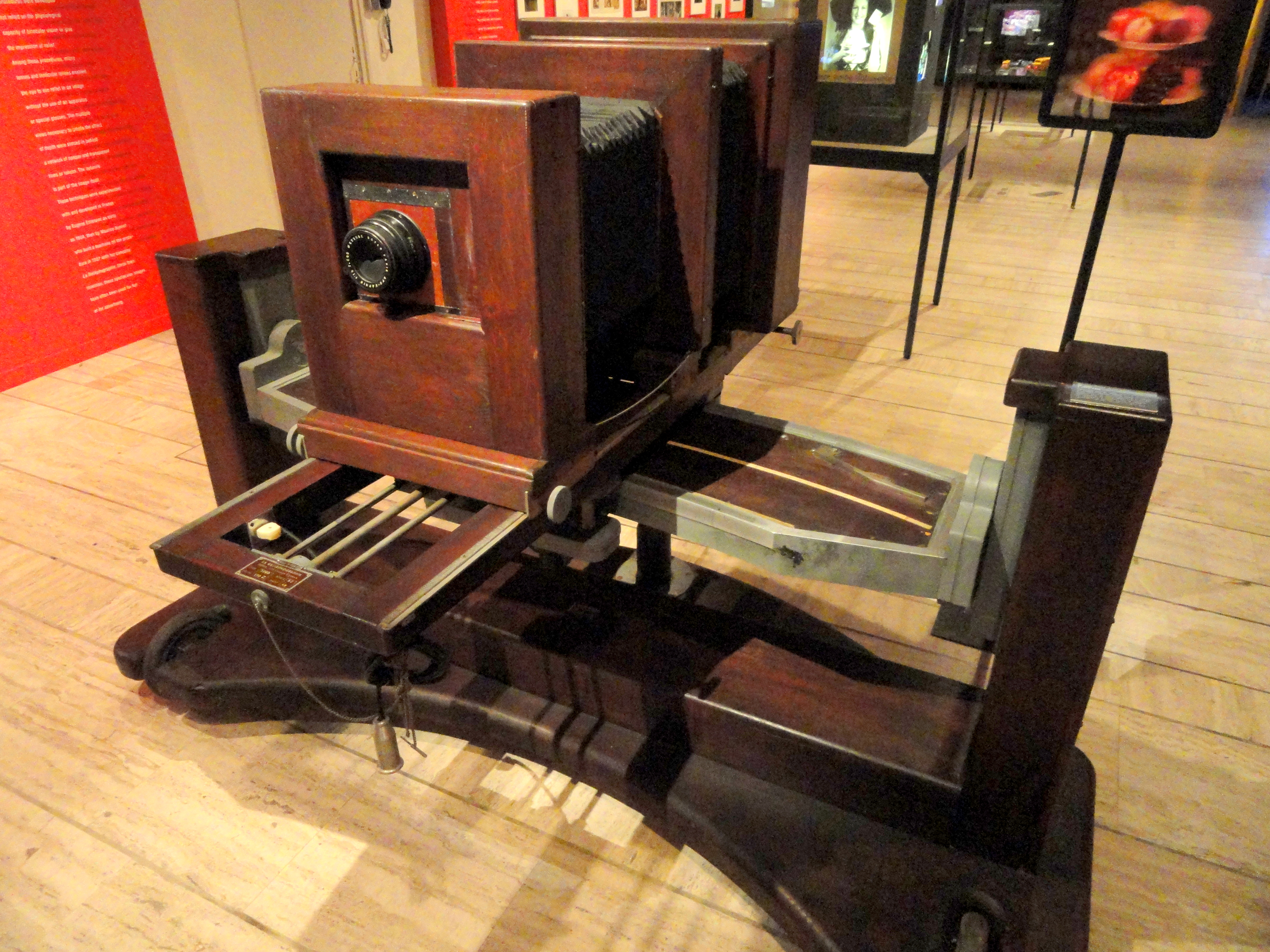 Maurice Bonnet OP 3000 lenticular image camera, c. 1942. Exhibit in the Musée Nicéphore Niépce, 28 Quai Messageries, Saône-et-Loire, France. There were no restrictions on photography in the museum.